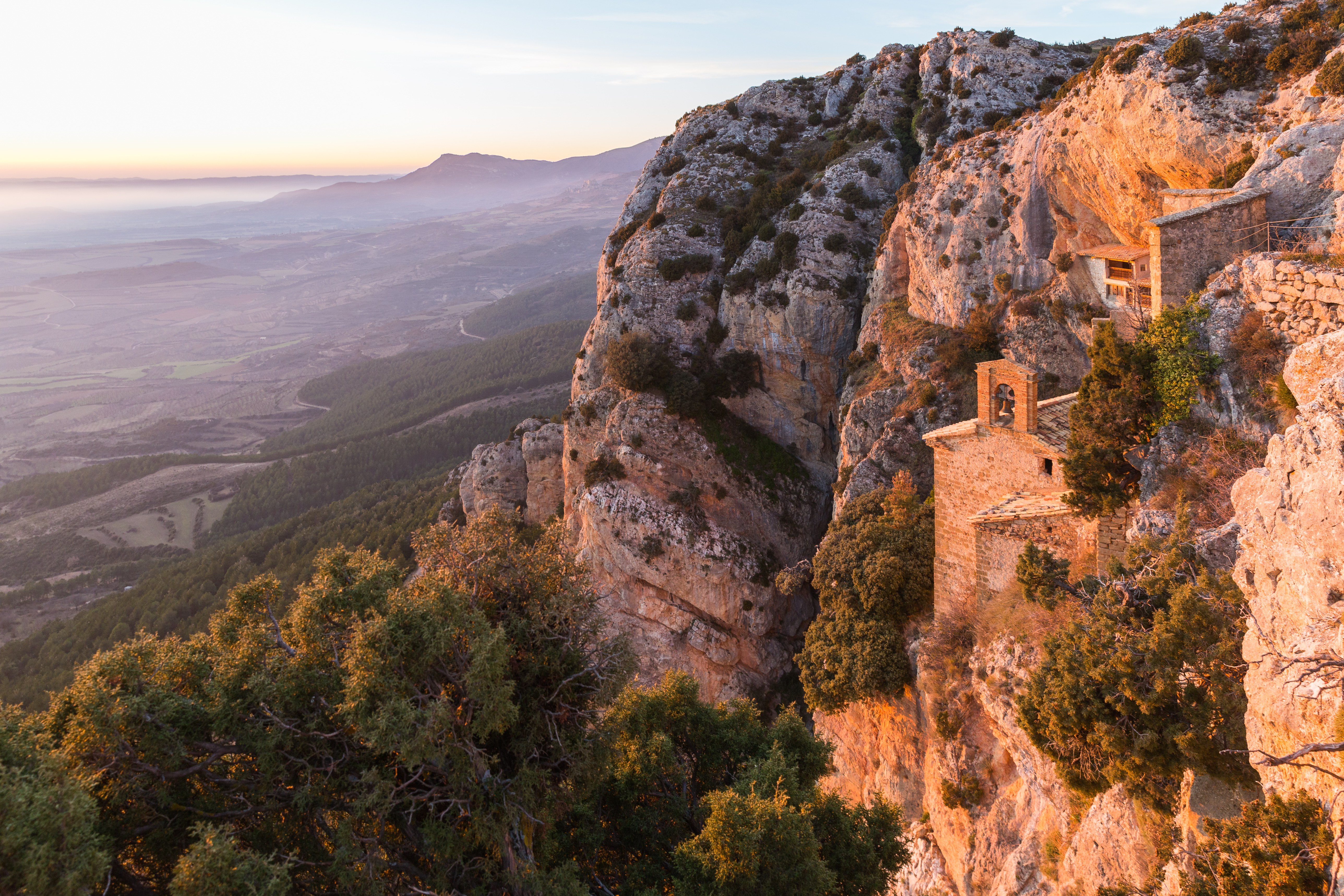 Hermitage of the Virgin of the Rock, LIC Sierras de Santo Domingo y Cabellera, Aniés, Huesca, Spain.